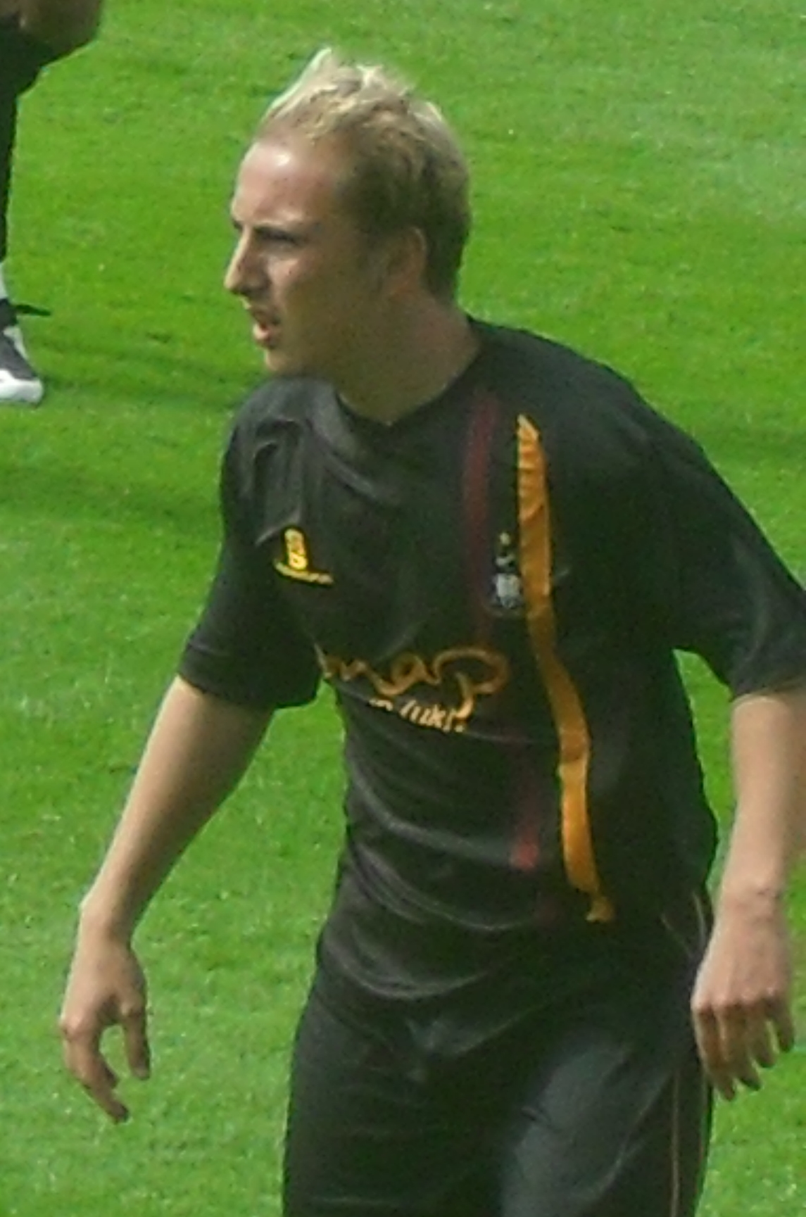 Luke O'Brien playing for Bradford City against York City at Bootham Crescent, York on 18 July 2009